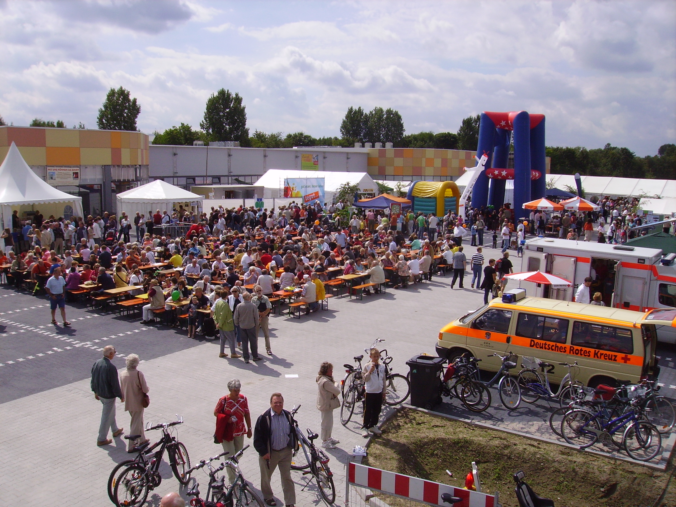 On August 24th, 2008, some 10,000 people attended a festival-like all-day-long protest in Lorsch (near Darmstadt, Germany). Themed "Bergstraße mobilzes", they rallied for the proposal to put the proposed Frankfurt-Mannheim high-speed railway line in 12-km-long tunnel in the area around Lorsch.